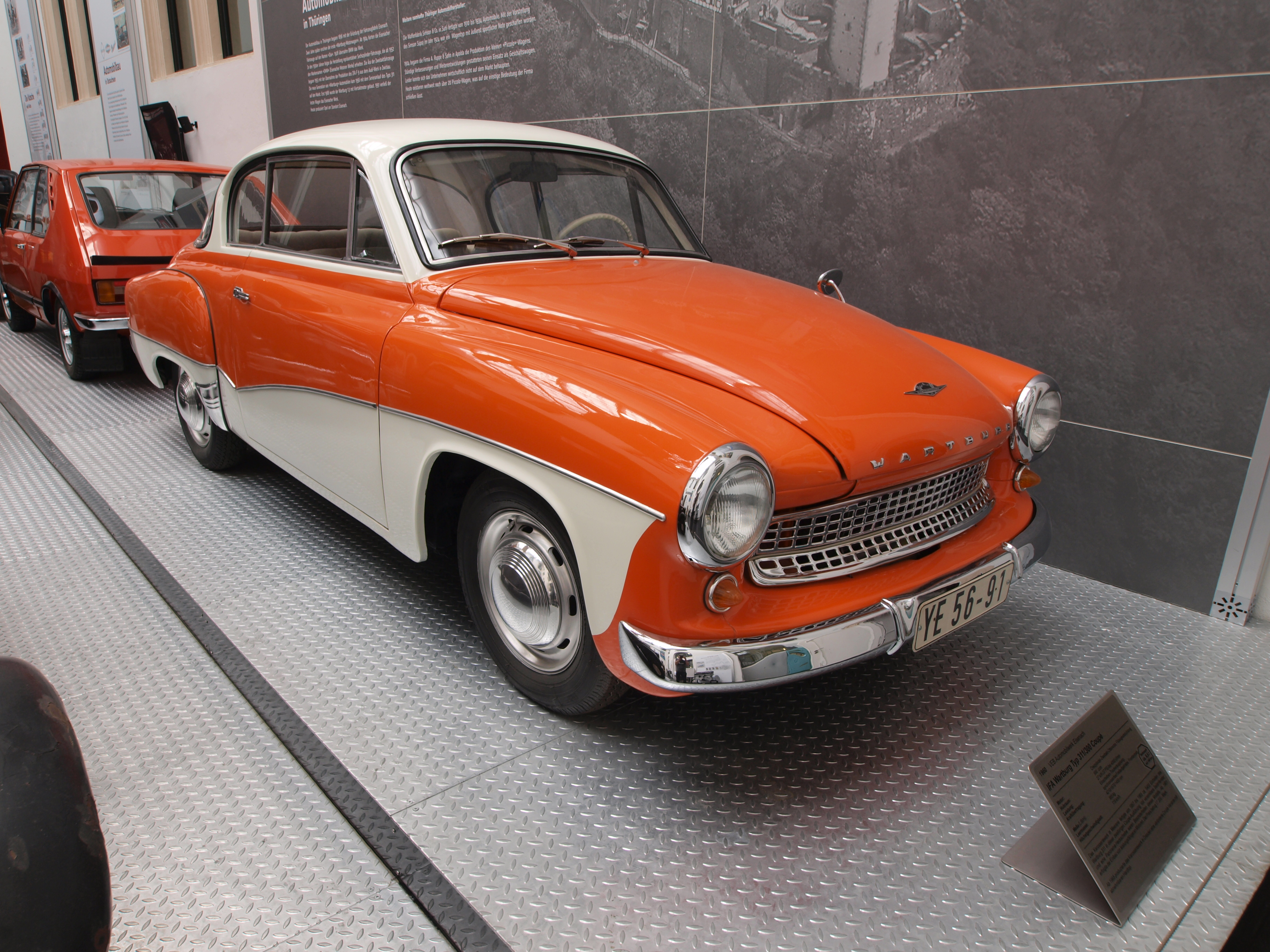 Photo taken without a tripod (was not permitted!) 1960 VEB IFA Wartburg Type 311-300 Coupé